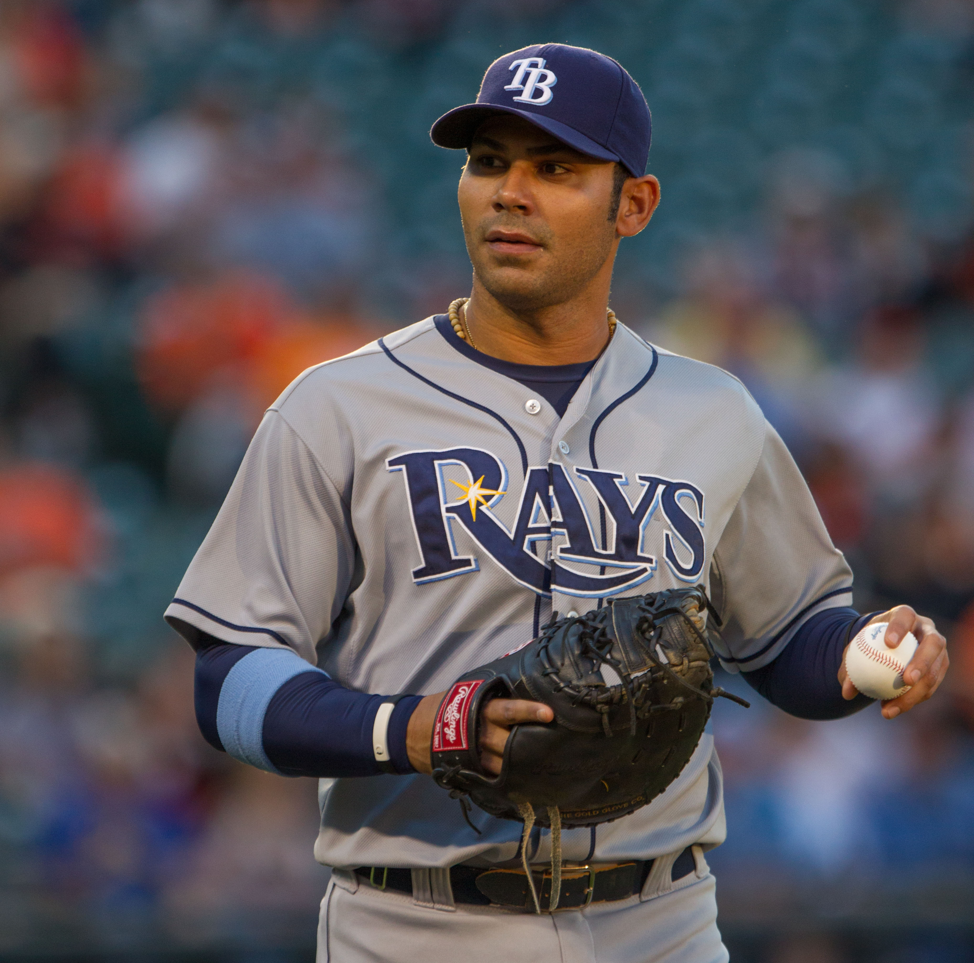 A picture of Carlos Peña, with the Tampa Bay Rays, before a game against the Baltimore Orioles on May 11, 2012.